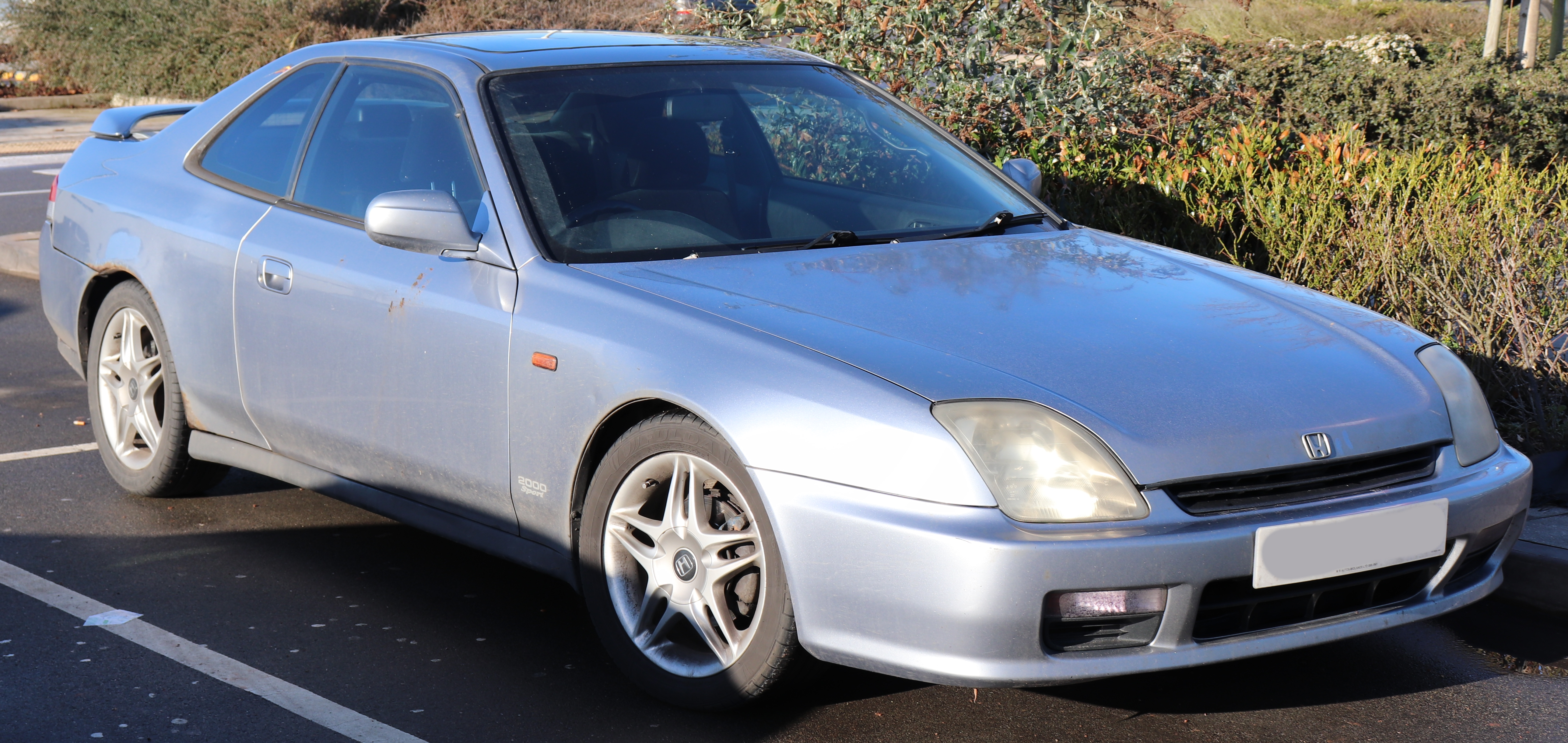 1999 Honda Prelude 2.0 Front Taken in Leamington Spa